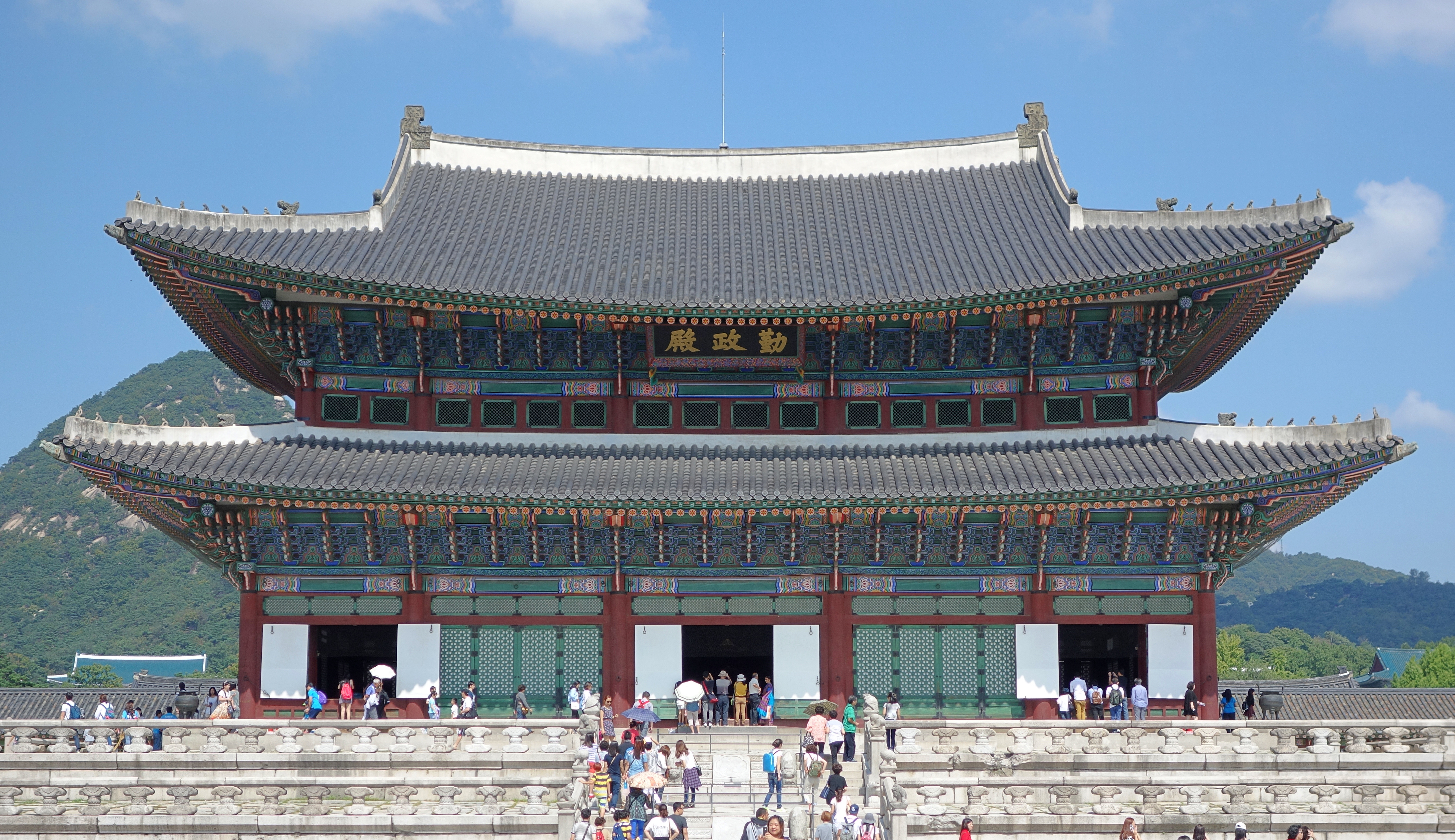 Geunjeongjeon, the throne hall, in Gyeongbokgung Palace, Seoul, South Korea